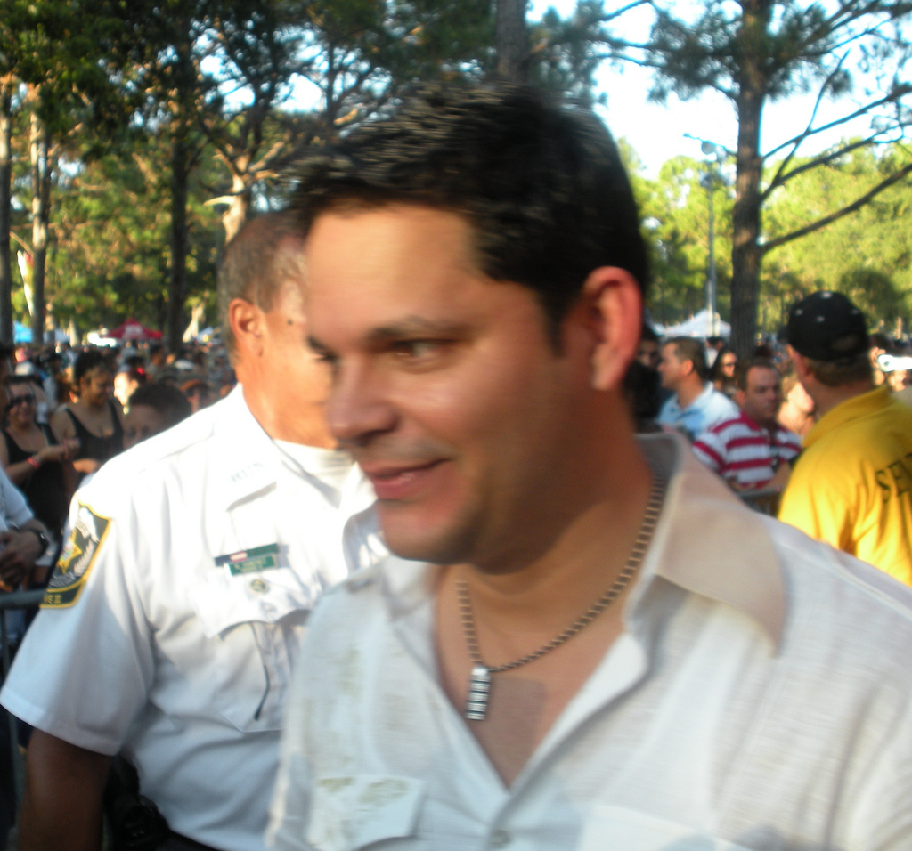 This photo was taken on November 1, 2009 using a Nikon Coolpix S560.